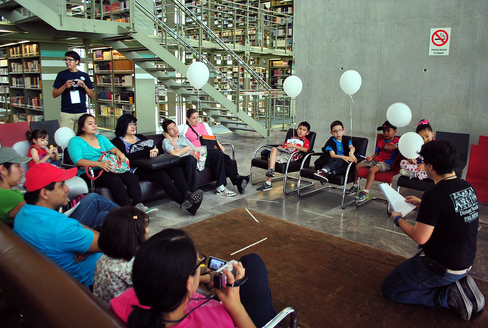 The Wikimedia Mexico team assisted the Biblioteca Vasconcelos' Children's Day celebration on 2014-04-27 and read a short story/fable inspired on Wikipedia, emphasizing the importance of sharing knowledge.